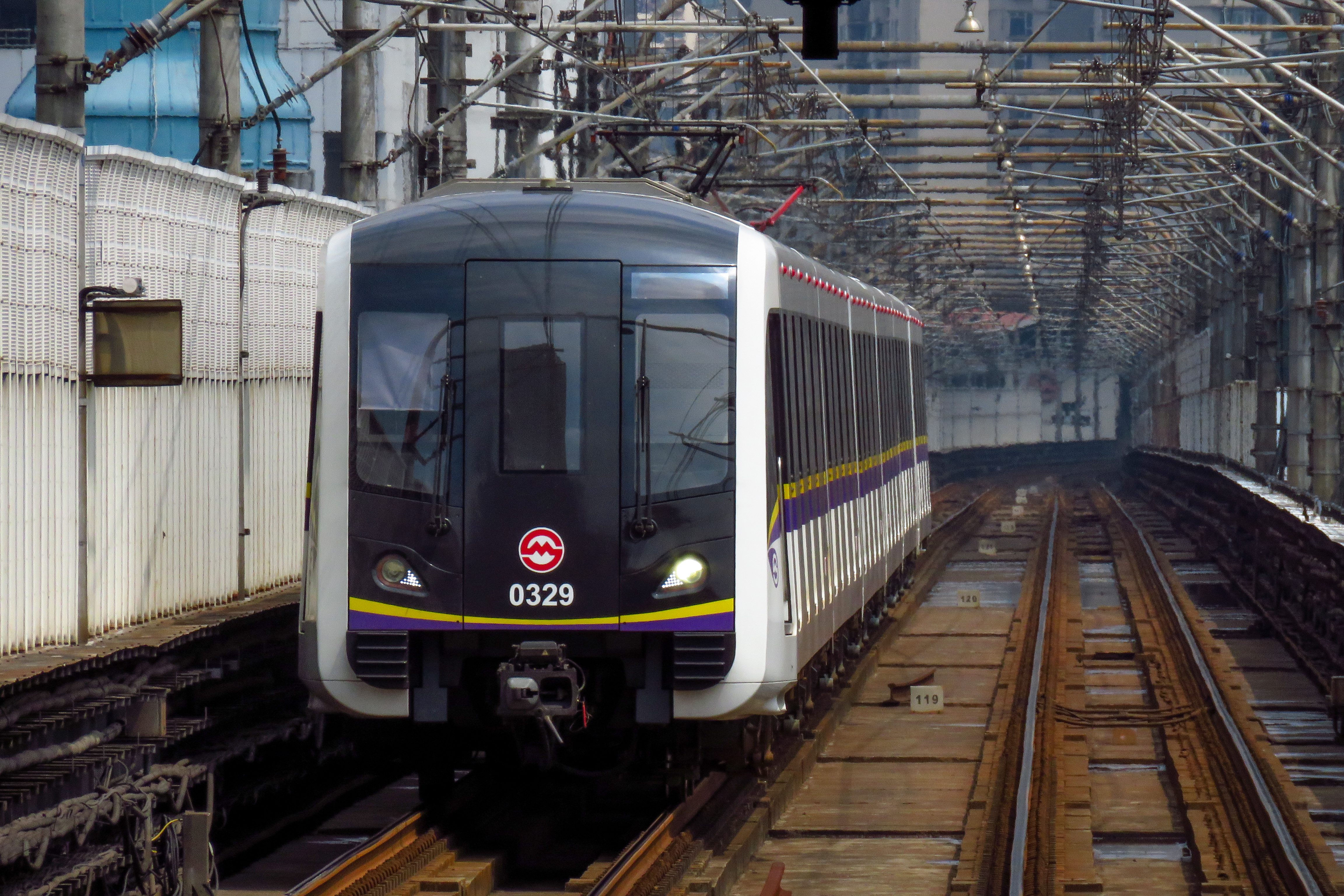 First time to catch a 03A02... taken successfully without being "smelted", I heard a girl asking her mother for heels...